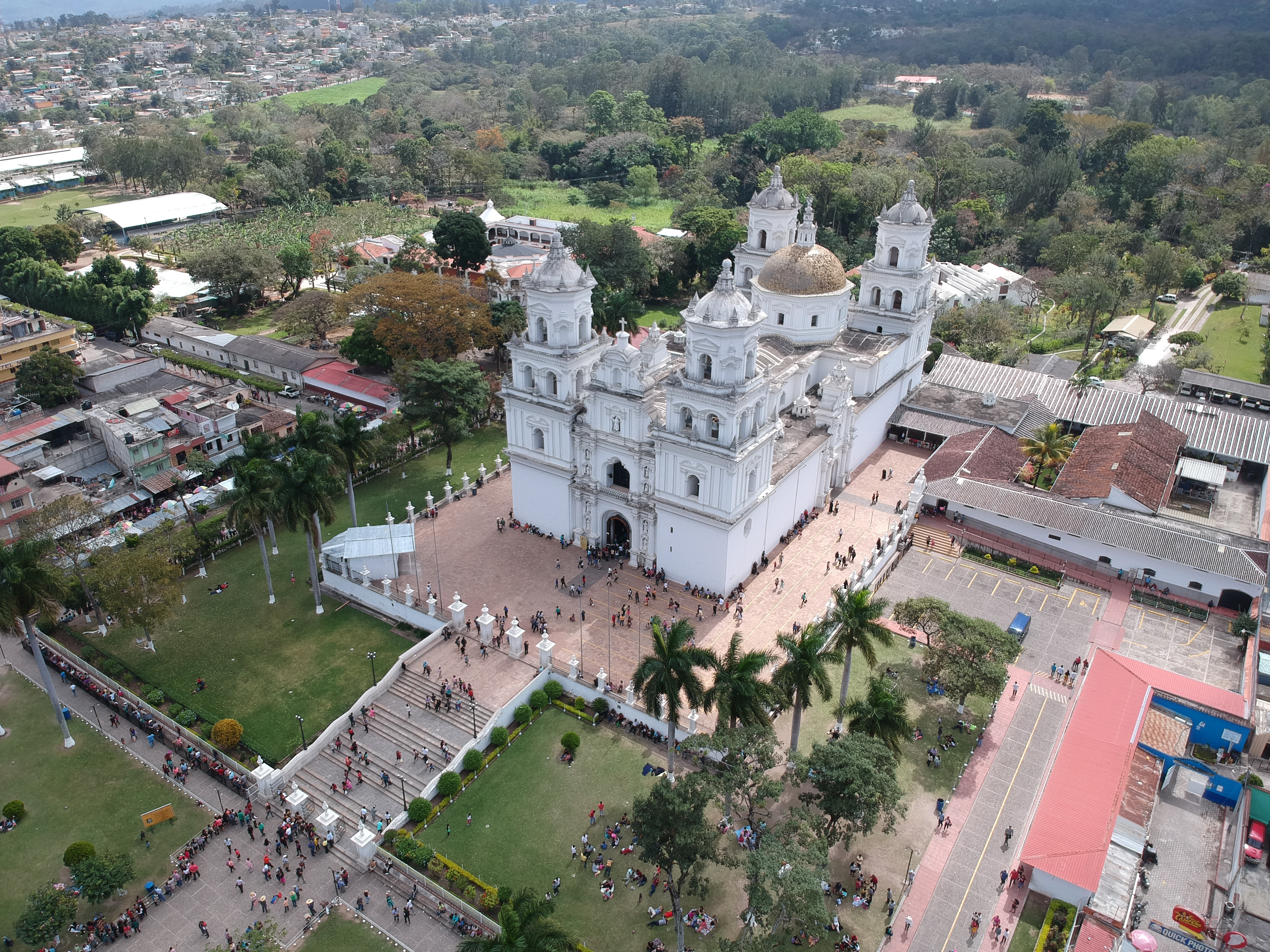 Esquipulas